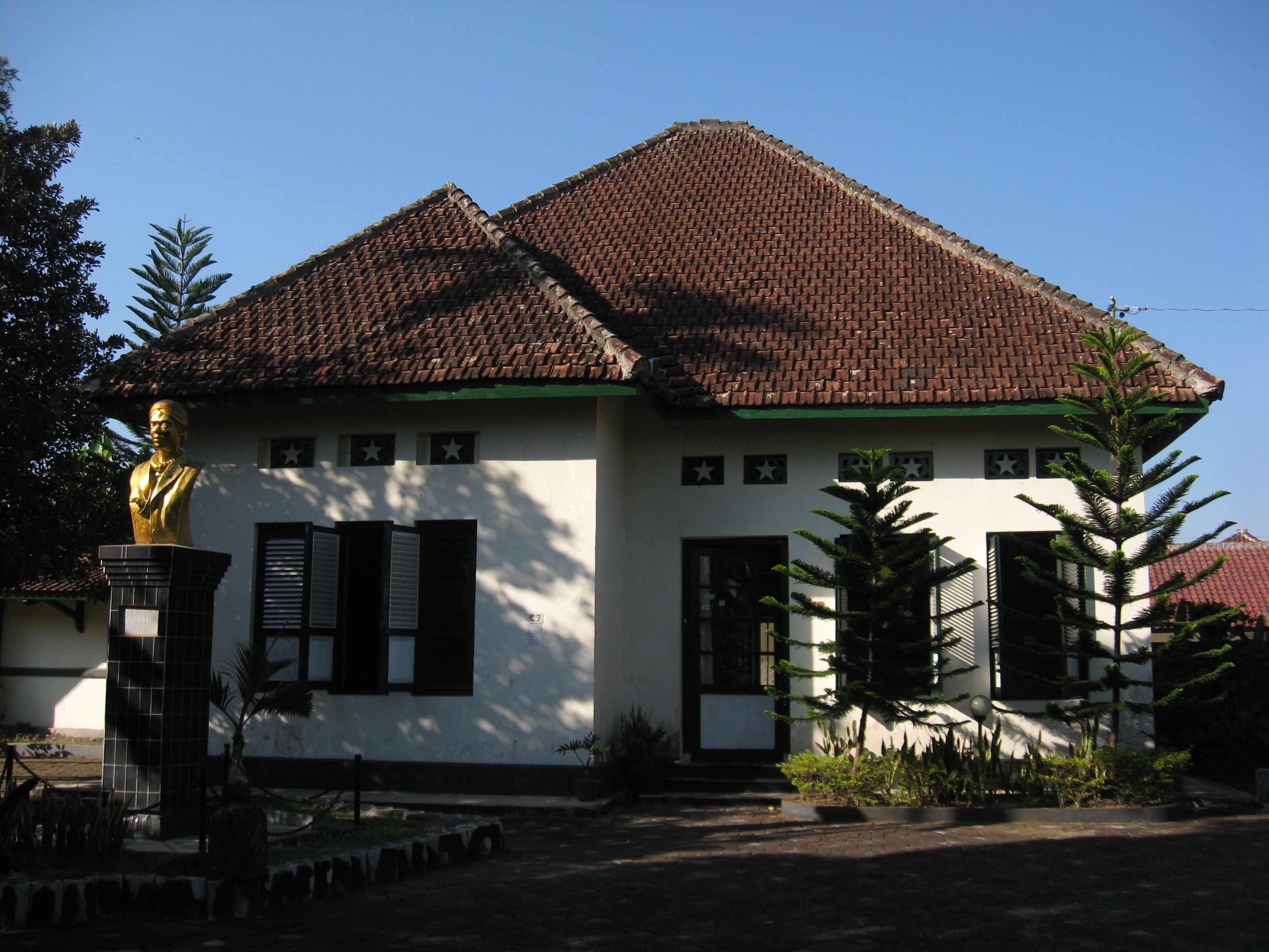 Home where Indonesian general Sudirman died in 1950.